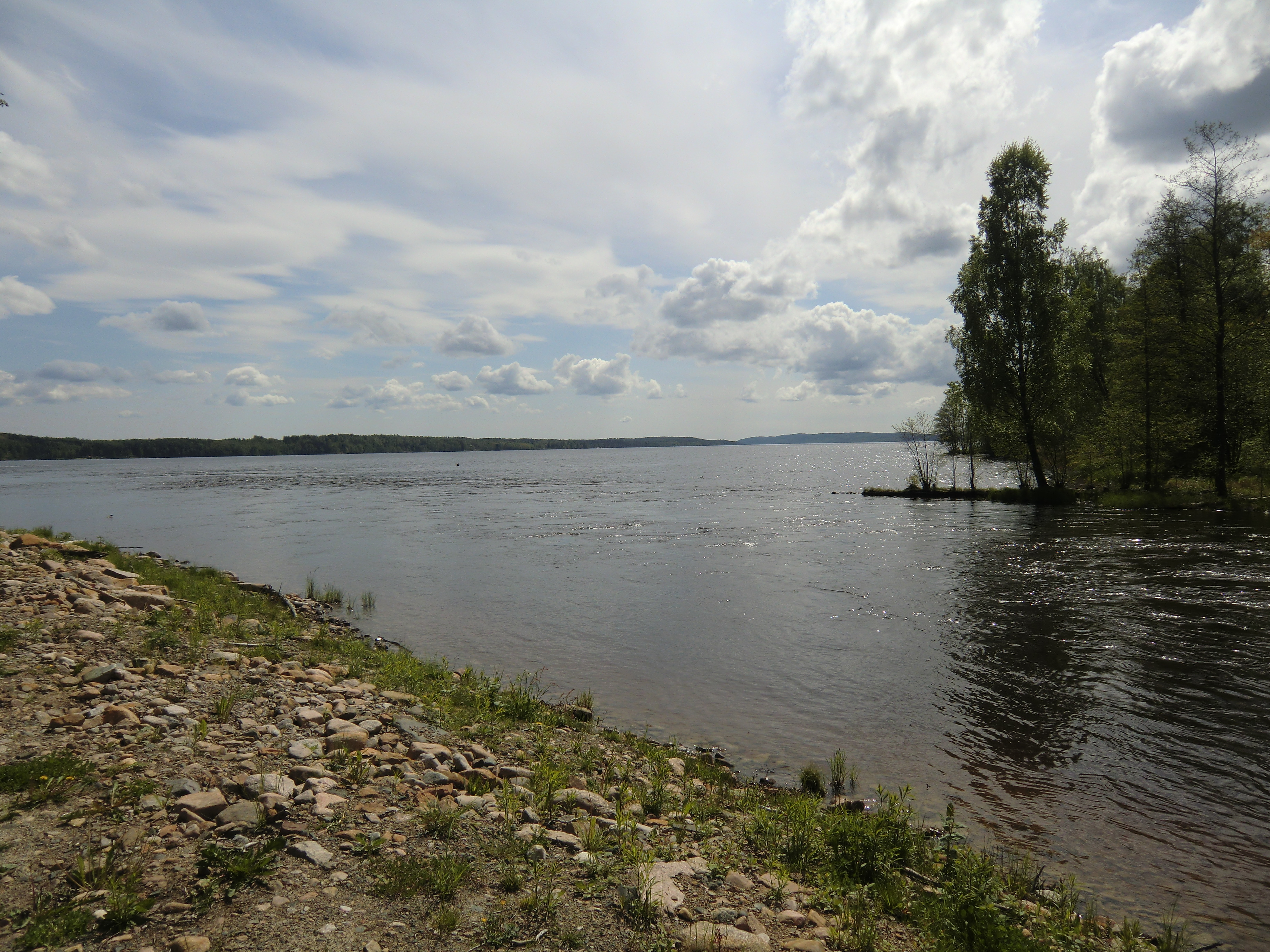 River Rottnans discharge into Fryken.